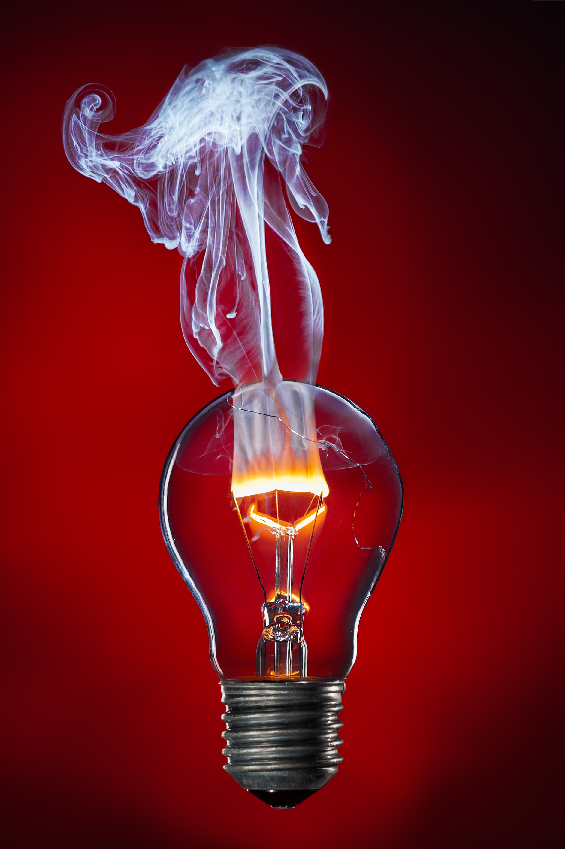 The glass envelope of this light bulb has been opened, allowing oxygenated air to replace the inert gas normally inside. When turned on, the tungsten filament burns with a flame. At the time of exposure, the bulb was screwed into a socket, which was replaced with the lamp screw base using image editing.